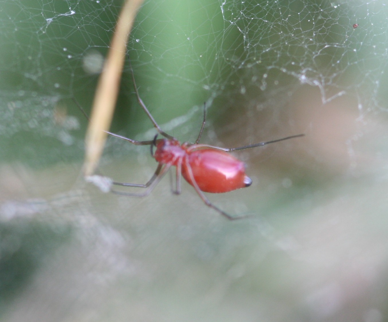 A female Florinda coccinea in her web, taken in 2009 in an alfalfa field in Lexington, Kentucky